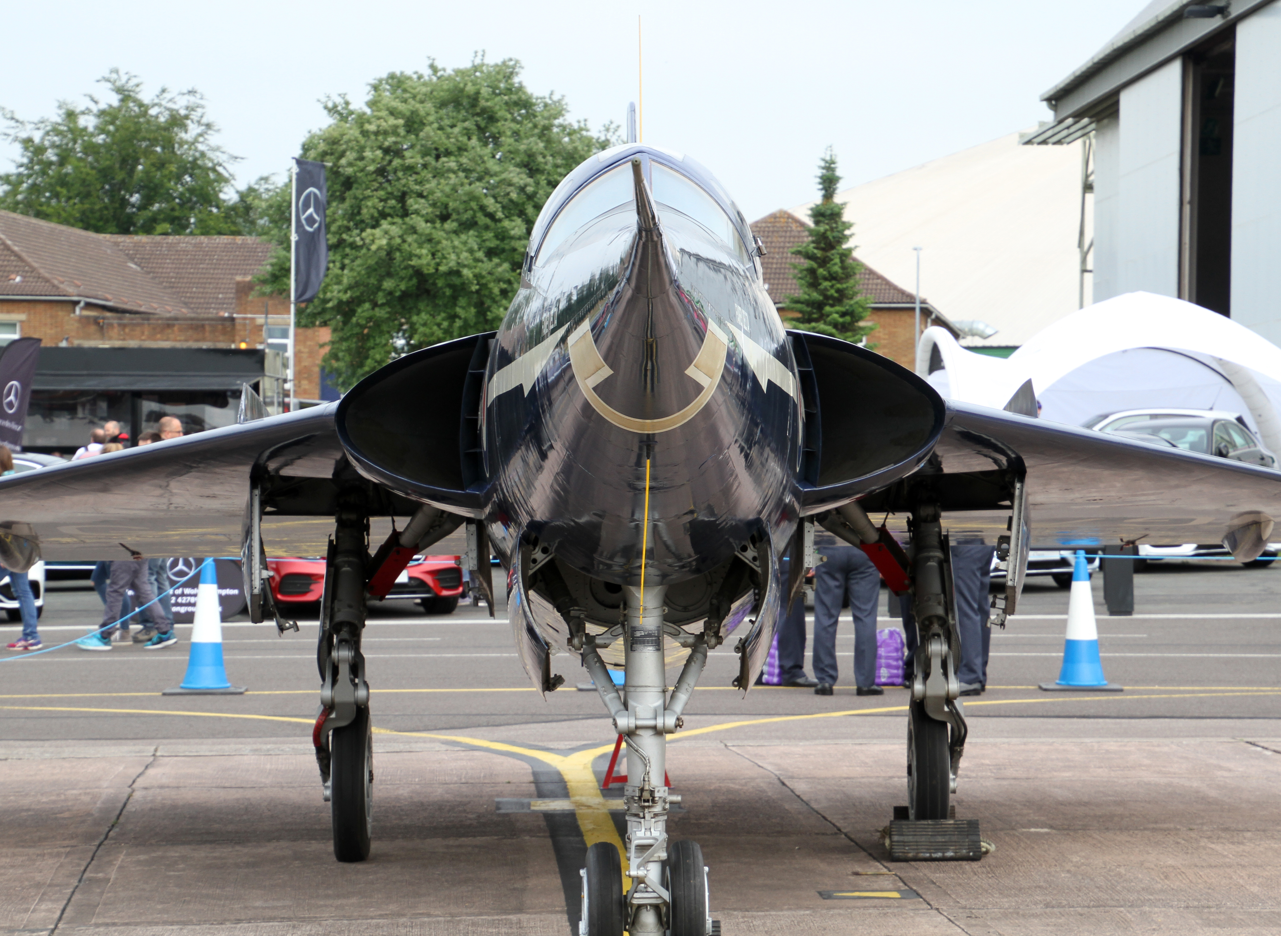 Fary Delta II 2